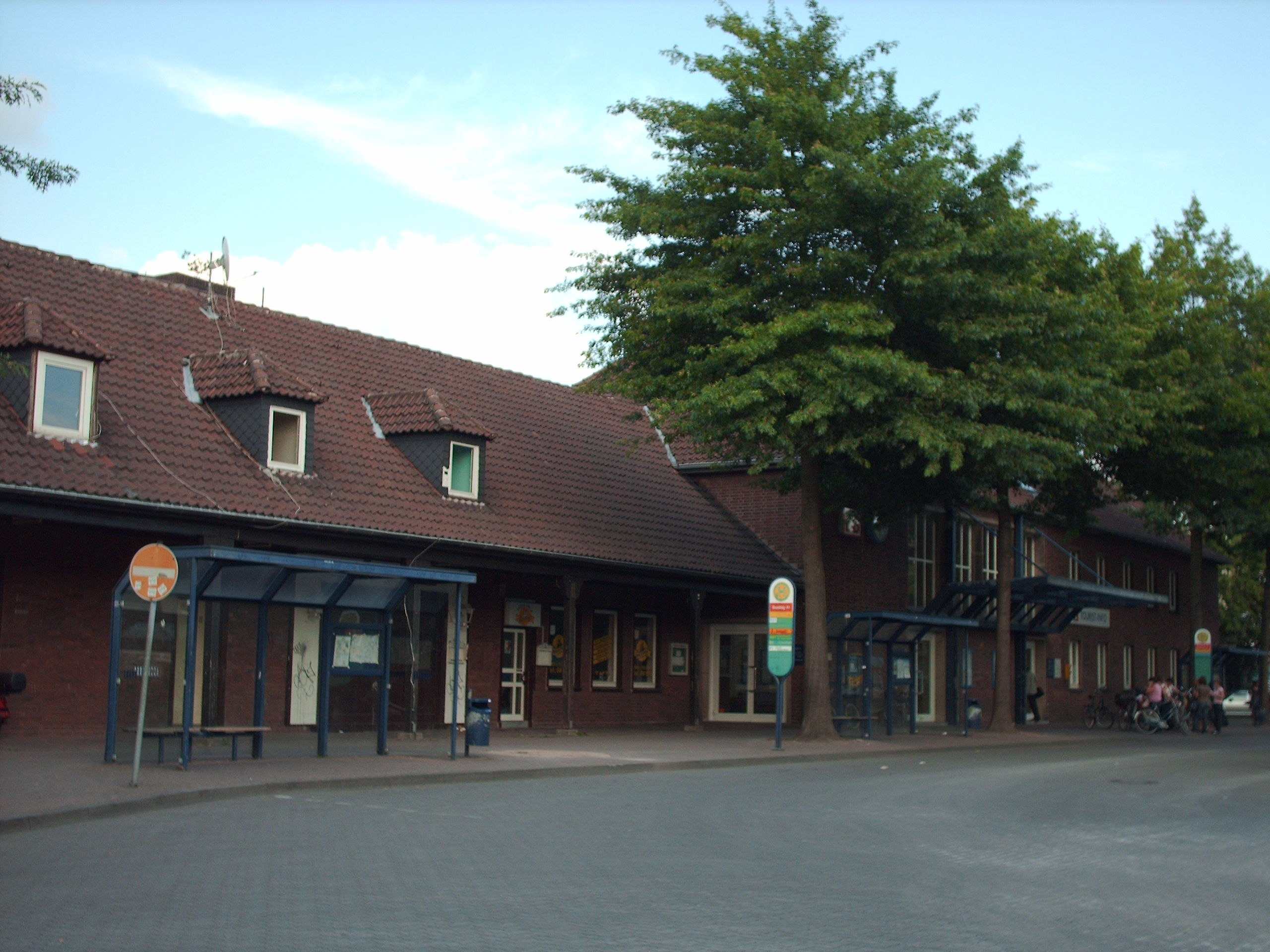 Borken (Westf) station, Borken, Germany check usage